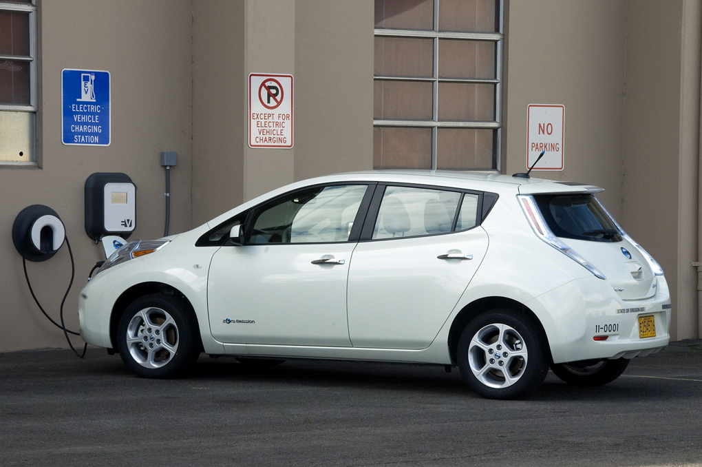 A charging station at ODOT Fleet reenergizes the Leaf.